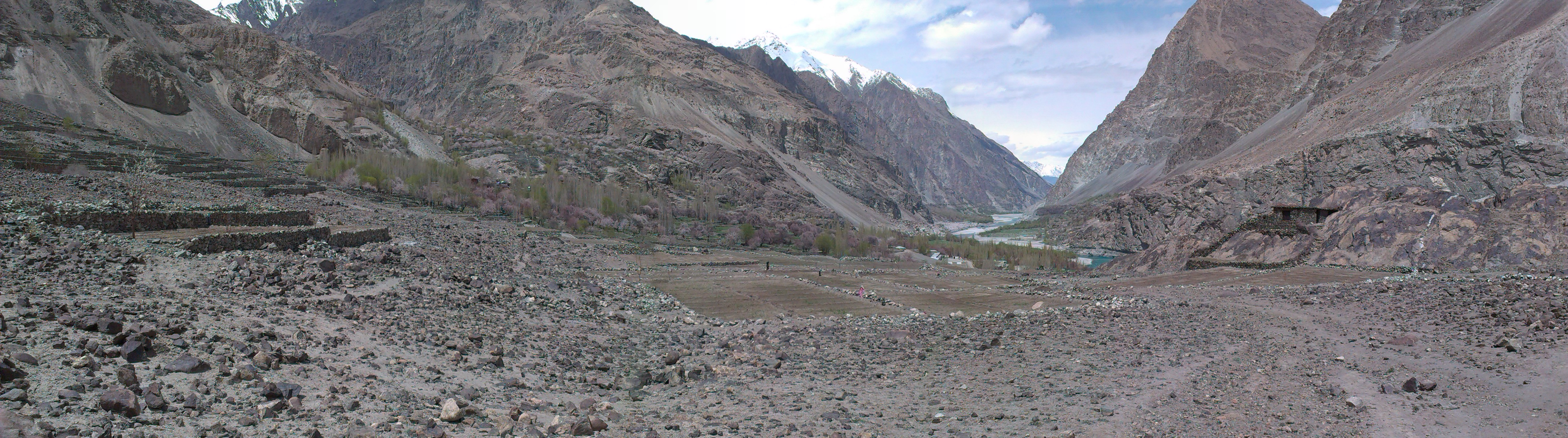 by Iftikhar Ali